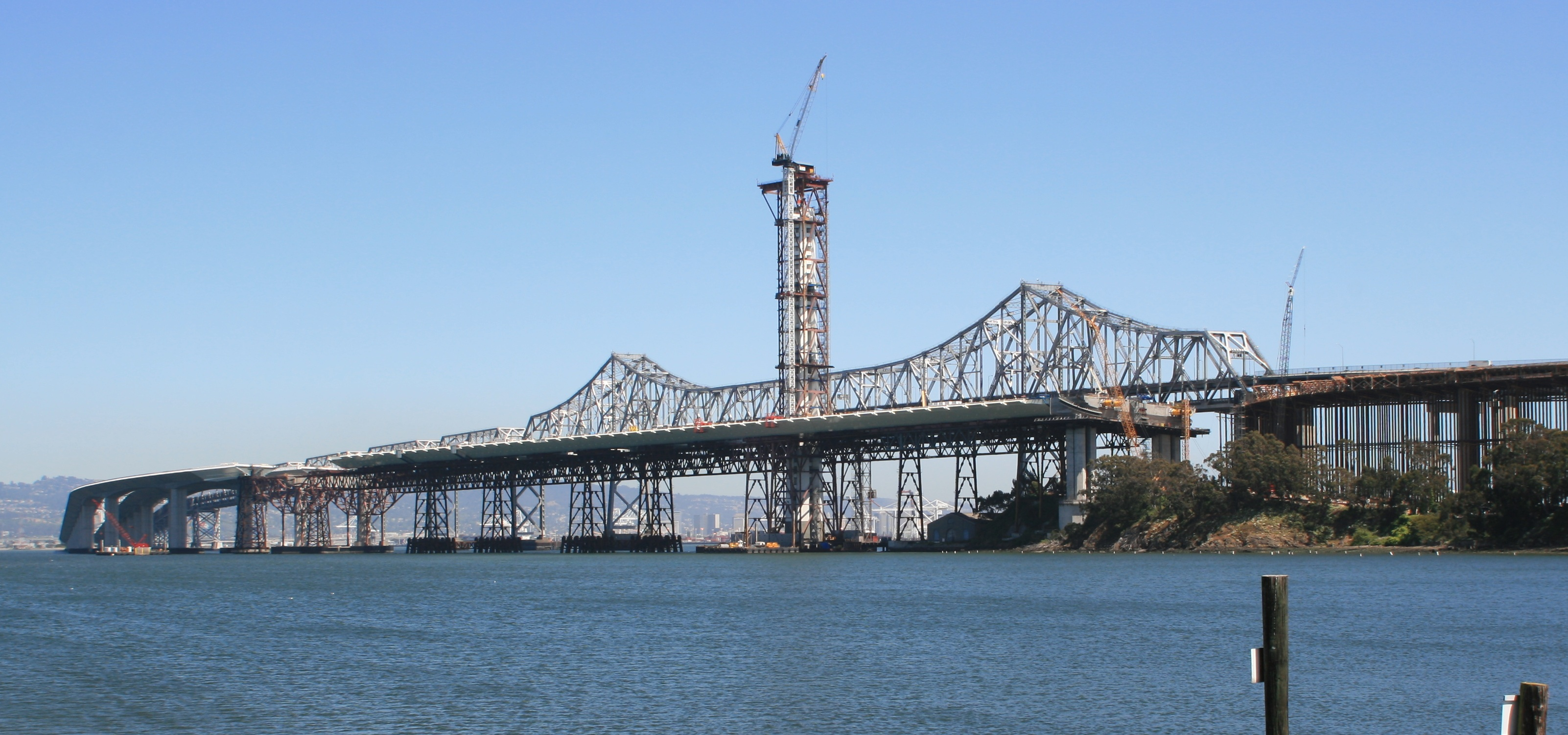 Construction work on the Eastern Span Replacement of the San Francisco-Oakland Bay Bridge